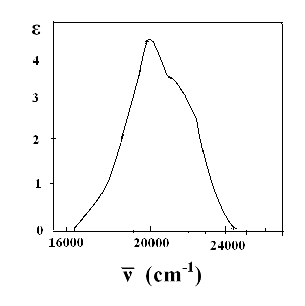 Absorption spectrum of [Co(H2O)6]2+.